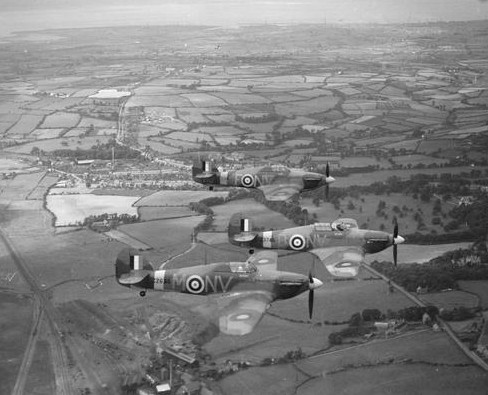 Three Hawker Hurricane Mark IIBs of No 79 Squadron RAF based at Fairwood Common, Glamorgan, flying in 'vic' formation above South Wales. The pilots were, the Commanding Officer, Squadron Leader G D Haysom (leading aircraft, Z3745 'NV-B'), and his flight commanders, Flight Lieutenant R P Beamont (nearest aircraft, Z2633 'NV-M'), and Flight Lieutenant L T Bryant-Fenn (furthest aircraft, Z3156 'NV-F).